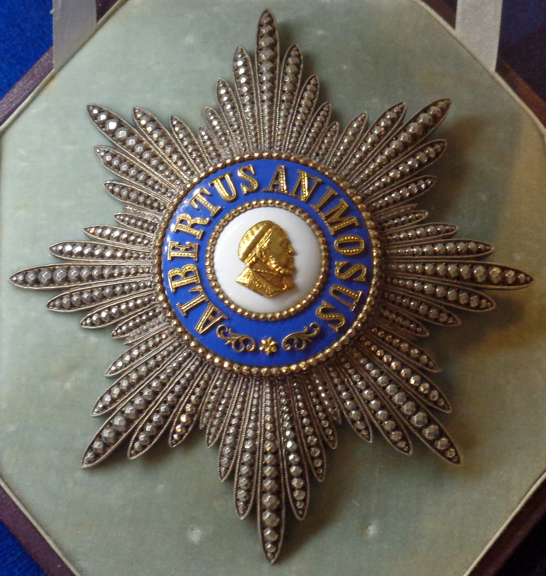 Albert Order, star of Grand Cross, 1850-1876. Kingdom of Saxony. The exhibition of the Tallinn Museum of Orders of Knighthood, Estonia.